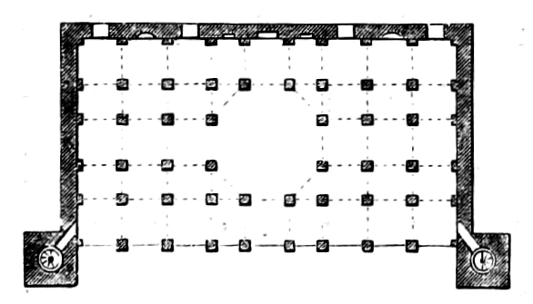 Image taken from: Title: "Architecture at Ahmedabad, the Capital of Goozerat, photographed by Colonel Biggs, ... With an historical and descriptive sketch, by T. C. H., ... and architectural notes by J. Fergusson, etc" Author: HOPE, Theodore Cracraft - Sir, K.C.S.I Contributor: BIGGS, Thomas. Contributor: FERGUSSON, James - Architect Shelfmark: "British Library HMNTS 10057.f.17.", "British Library OC V 6665" Page: 88 Place of Publishing: London Date of Publishing: 1866 Issuance: monographic Identifier: 001730119 Explore: Find this item in the British Library catalogue, 'Explore'. Download the PDF for this book (volume: 0) Image found on book scan 88 (NB not necessarily a page number) Download the OCR-derived text for this volume: (plain text) or (json) Click here to see all the illustrations in this book and click here to browse other illustrations published in books in the same year. Order a higher quality version from here.